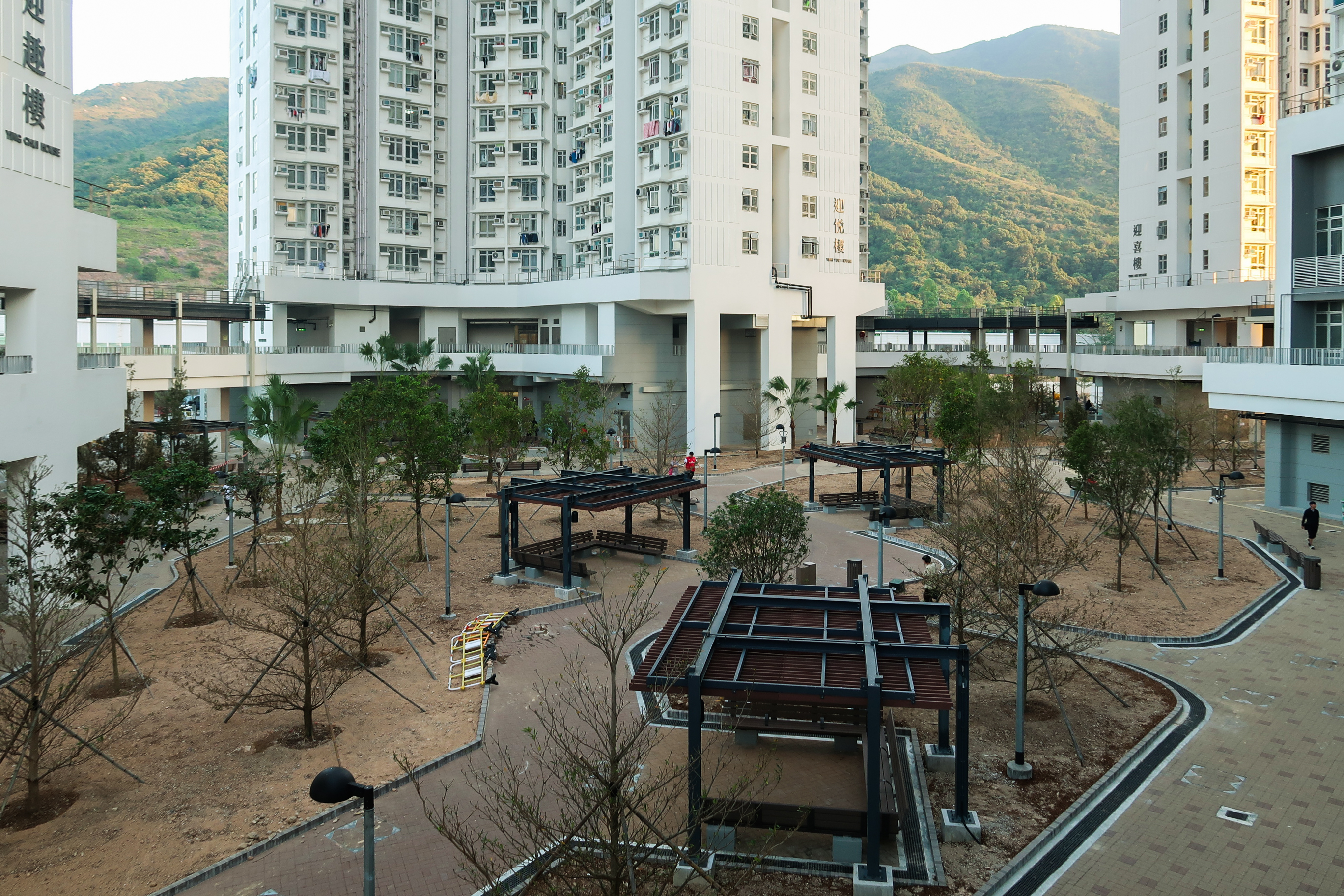 Ying Tung Estate Central Garden